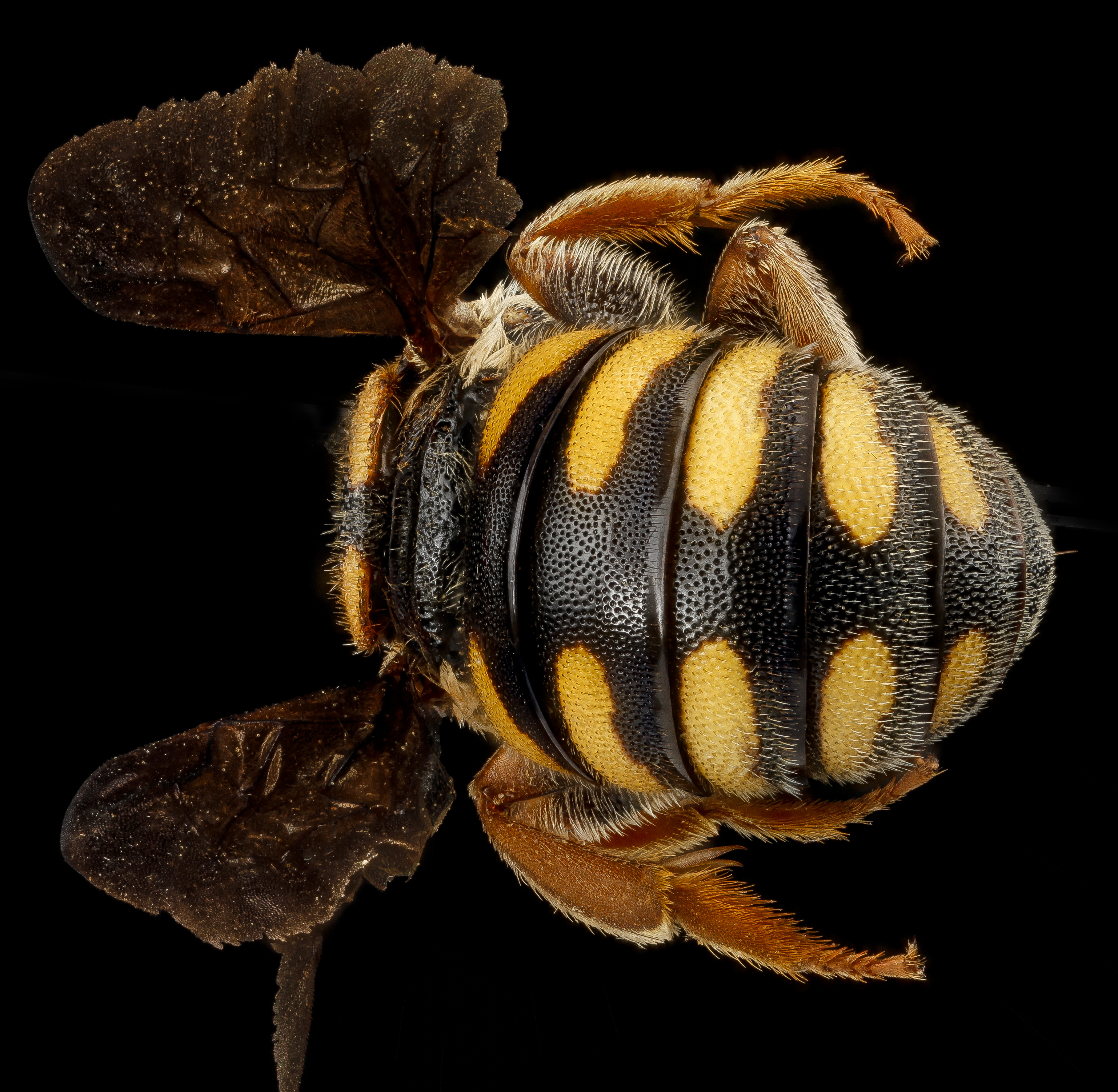 Sandhills National Wildlife Refuge, South Carolina, nest parasite of other bee species